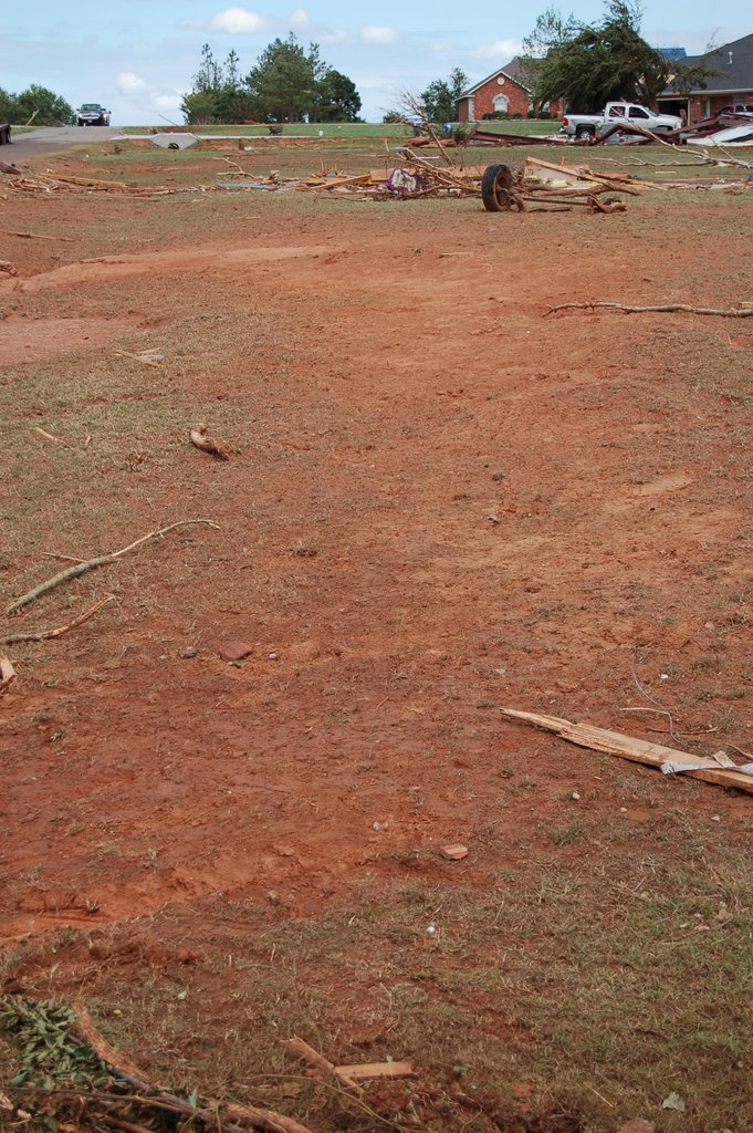 Extreme ground scouring in Blanchard, OK.